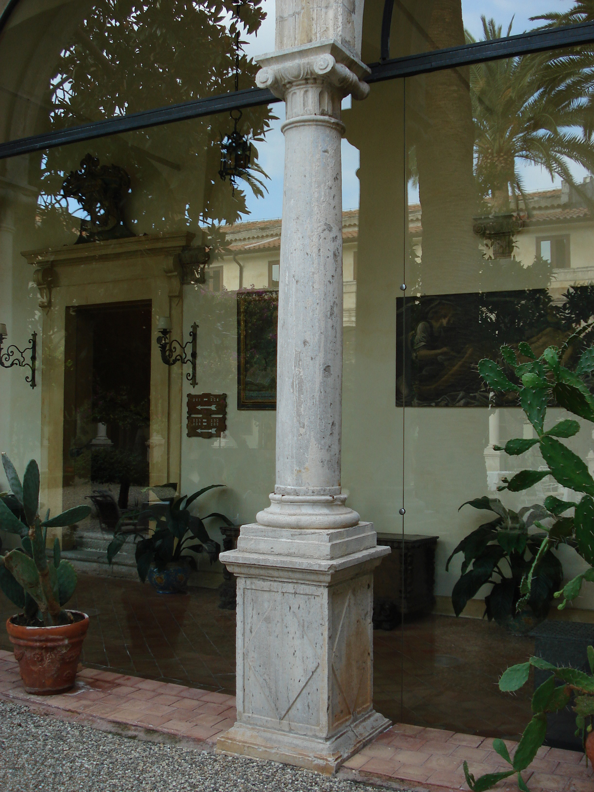 The 16th century former cloister of what is today Hotel "San Domenico" in Taormina. Picture by Giovanni Dall'Orto, january 2006. Foto di von Gloeden, ca. 1900. Una mia immagine dello stesso chiosto scattata nel 2006. "Intrusione dal passato". Fotomontaggio delle due precedenti immagini.